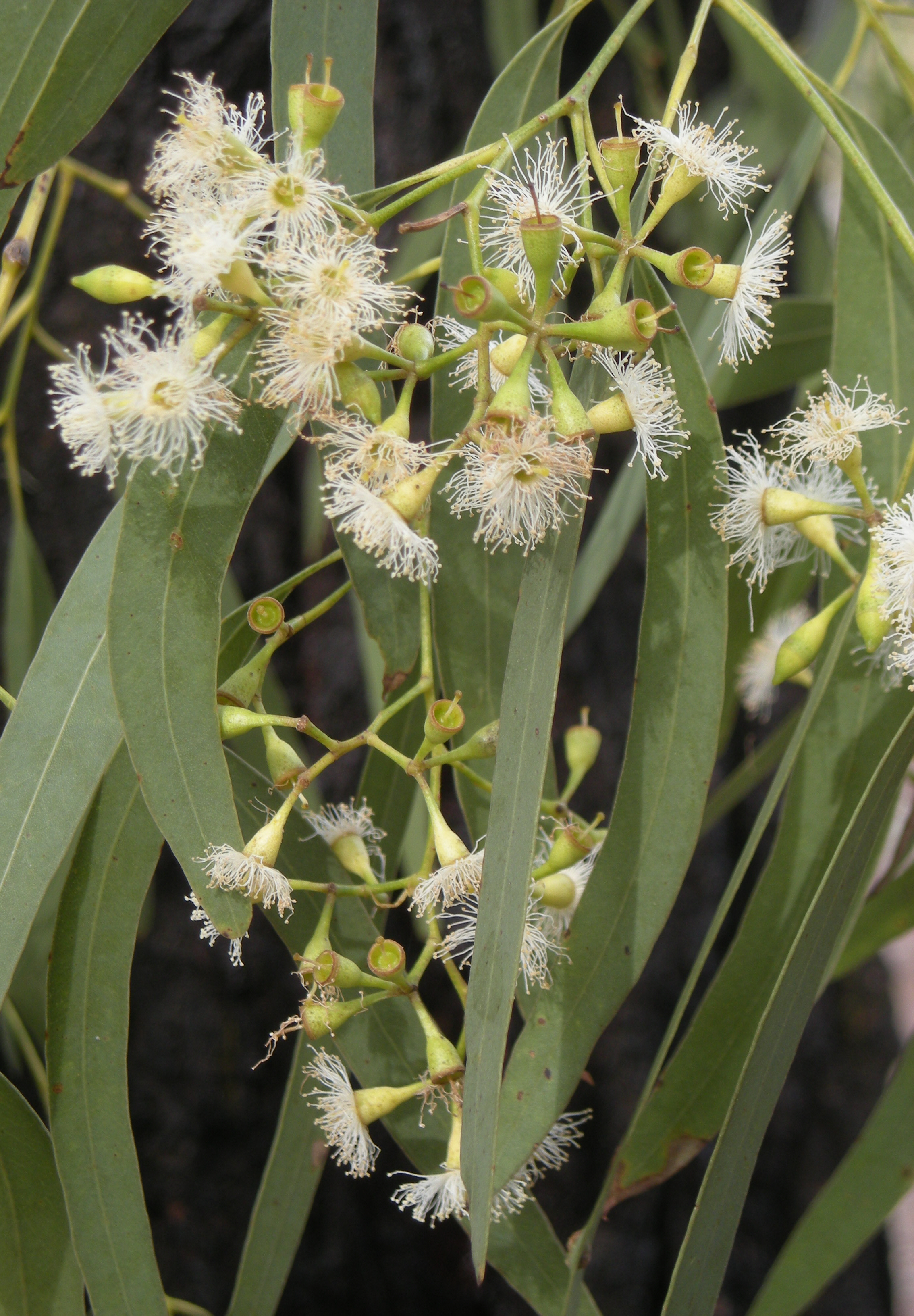 Eucalyptus crebra flowers, Rockhampton, Queensland